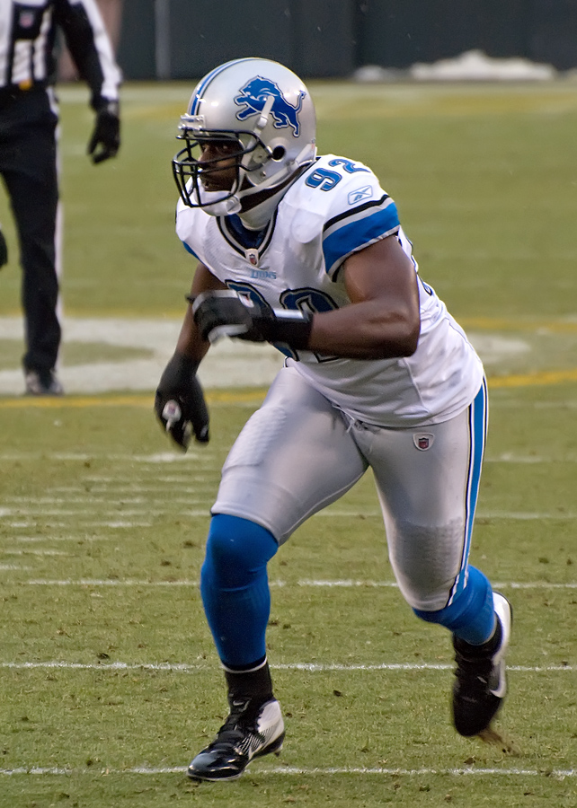 Detroit Lions player Cliff Avril